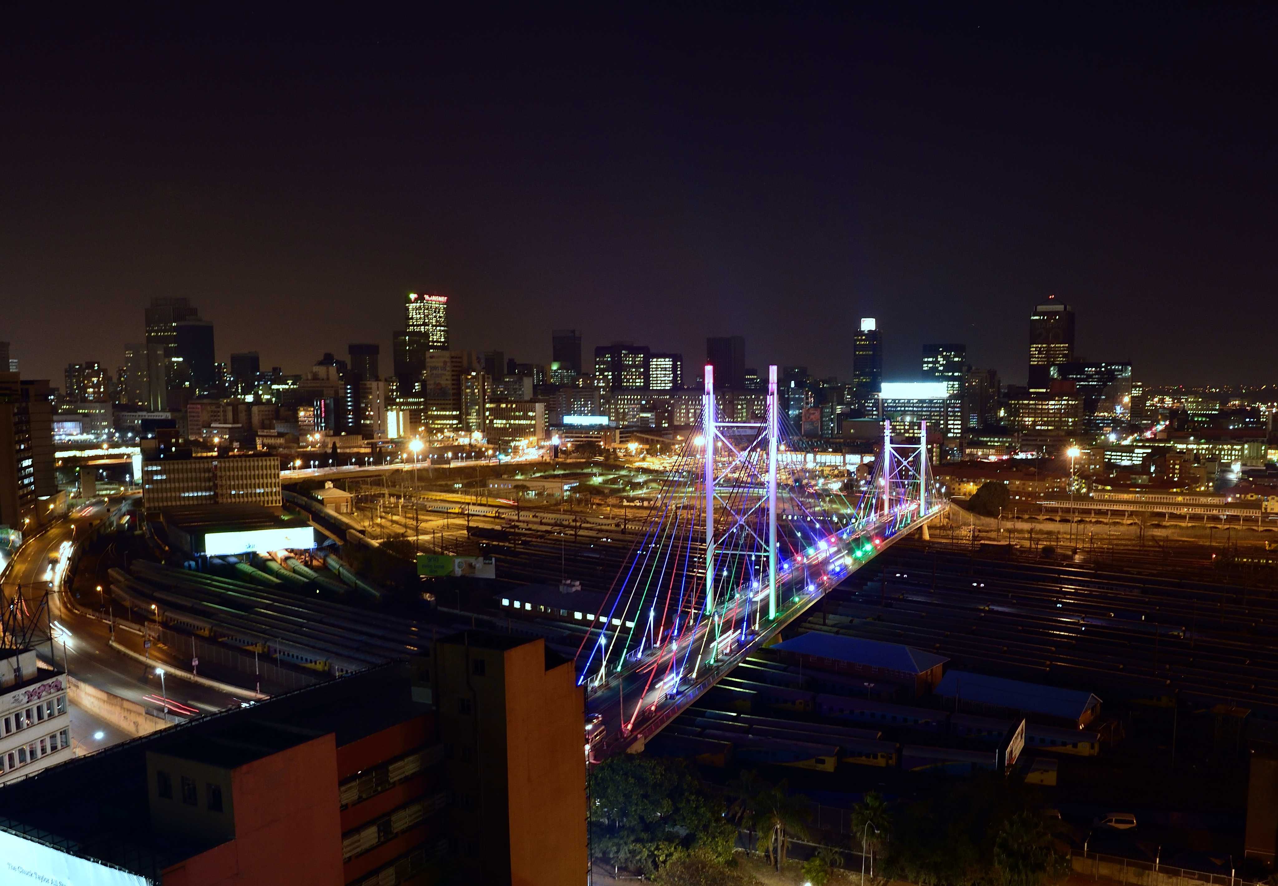 Johannesburg at night